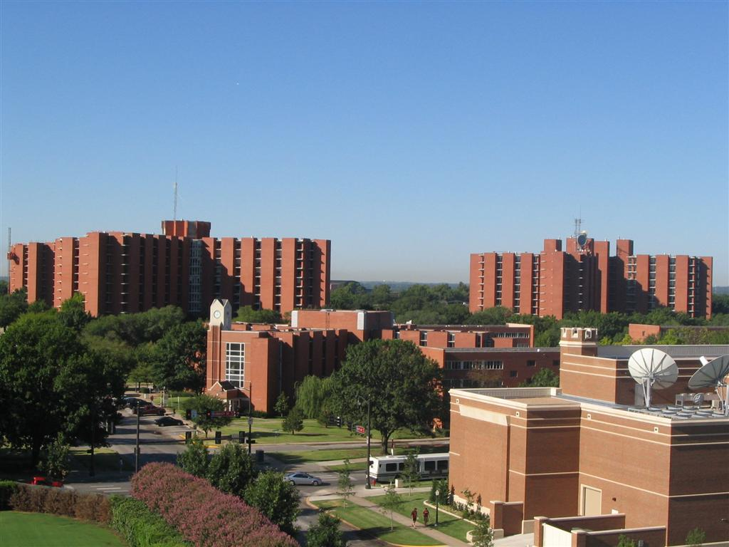 A view of a few dorms at OU in Norman, OK. Walker tower on the left, Adams tower on the right, Boren honors dorm in front of both (with clock on top). The Couch cafeteria and dormitories are slightly visible behind Walker tower. The Couch dormitories are to the left, and the cafeteria is on the right.